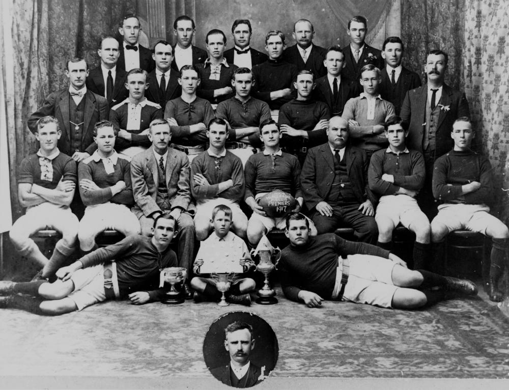 Junior Wallaroo Rugby League Club from Maryborough, unbeaten in 1917 Winners of Premiership and Knock-out competition in 1917, with an unbeaten record. Back row - J. Massingham (Hon. Auditor), W. H. Doss, J. H. Concannon (Hon. Auditor), C. Kelleher, G. N. Smoothey (Secretary M. A. R. L.). Second row - C. Williams (President), A. C. McAllister, N. Hunter, L. Lohse, W. Galvin (Hon. Secretary), W. Maitland (Delegate M. A. R. L.). Third row - C. Deacon (Vice-president), A. Casperson, A. Saunders, C. Lohse, B. Lewis, O. Johnstone, J. R. Ryan (President and Delegate M. A. R. L.). Sitting - W. Berndt, H. Pisch, W. H. Wuth (President M. A. R. L), R. Thacker, V. Lenihan, Capt. A. Thacker (Patron), J. McAllister, F. Box. On floor - E. Miller, J. Wuth, M. Williams (Ass. Secretary). Inset - C. Witt. (Description supplied with photograph.).